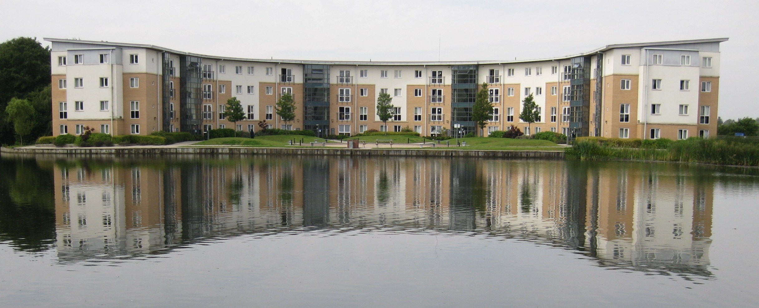 Wentworth College, University of York. Newest building viewed from across the lake.